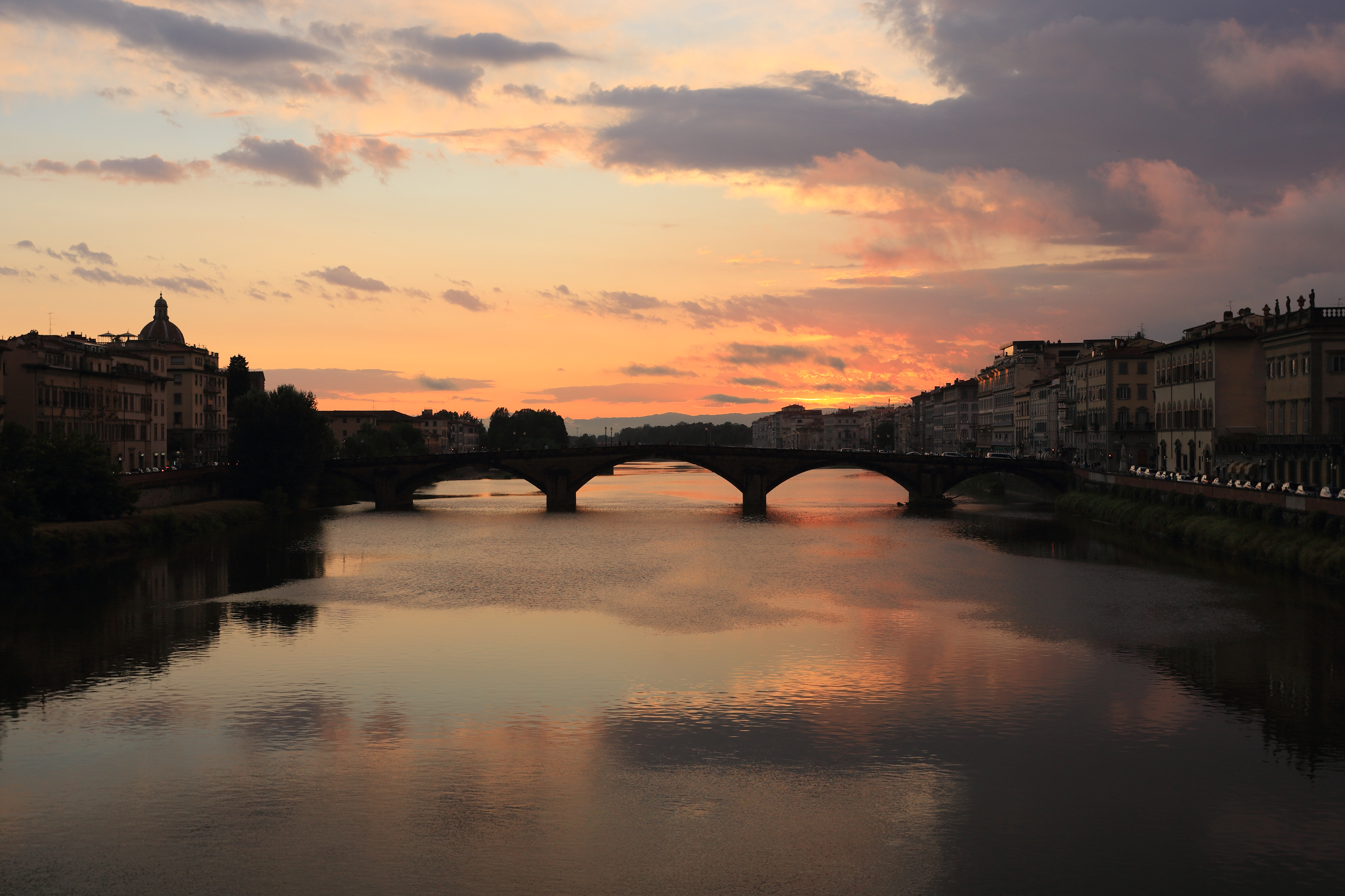 Florence: Ponte alla Carraia at dusk